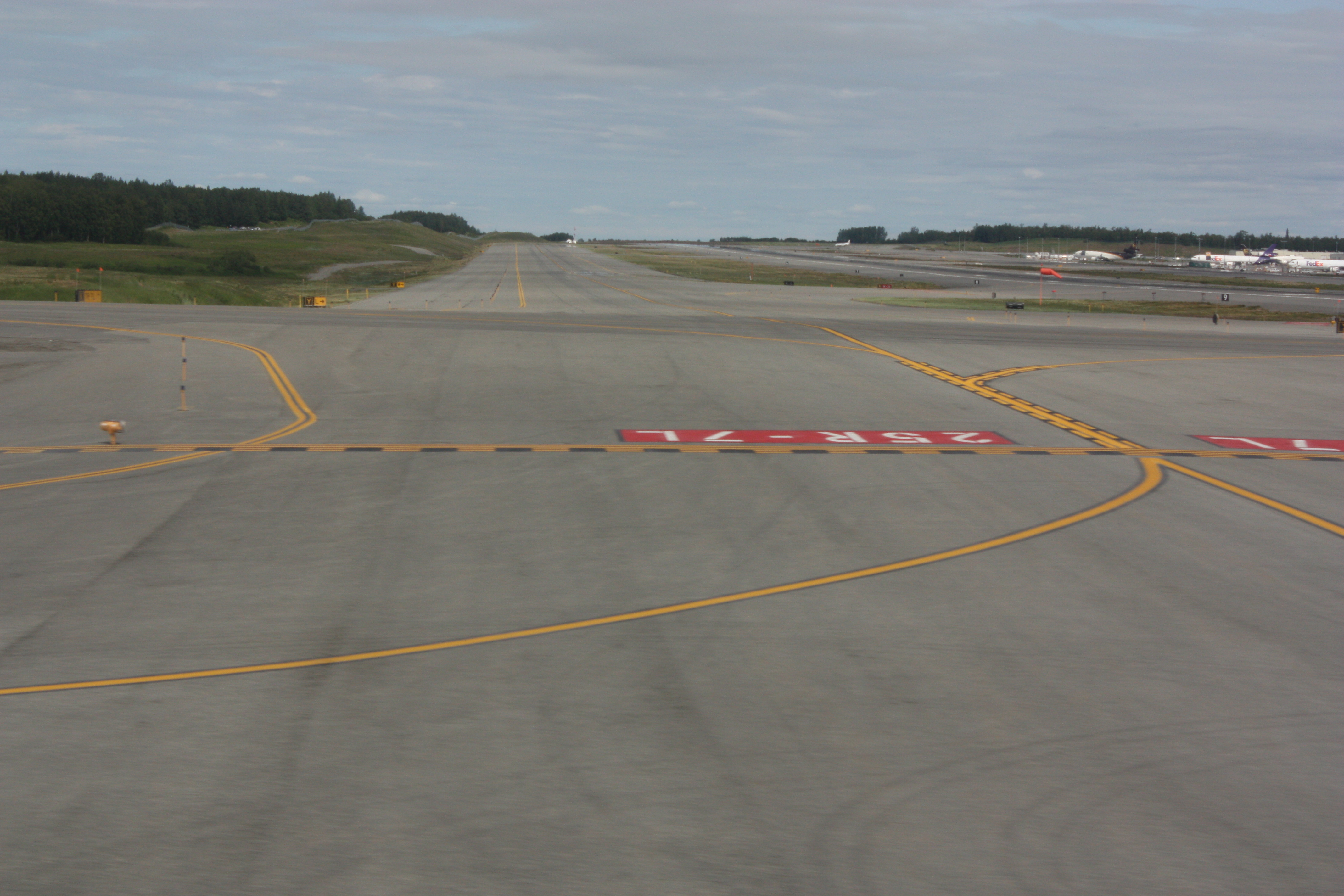 Taxiway with Holding Position Sign; Taxiway Edge Markings; Runway Holding Position Marking